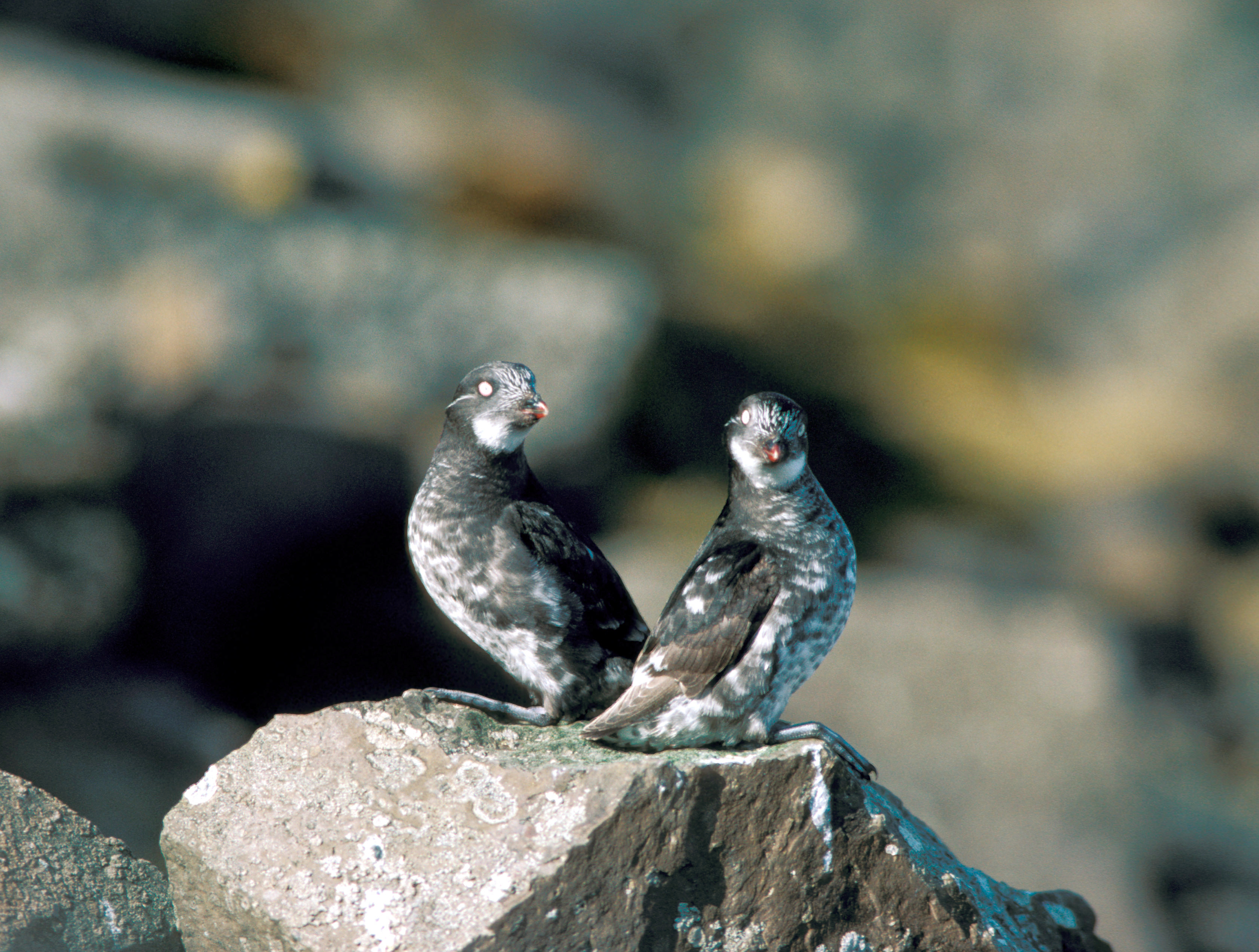 Pair of Least Auklets (Aethia pusilla)